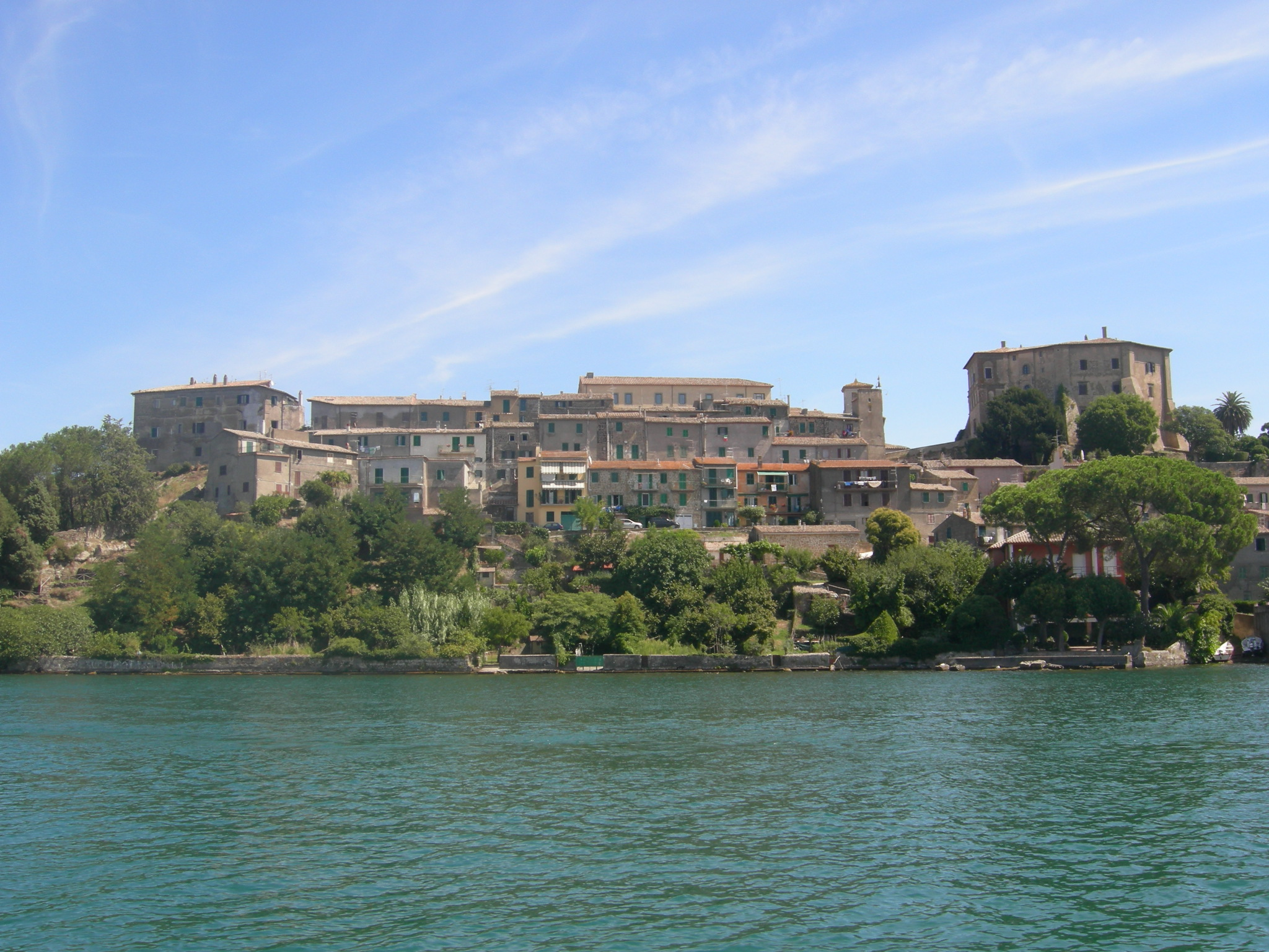 View of Capodimonte (VT), Latium, Italy on the Bolsena Lake